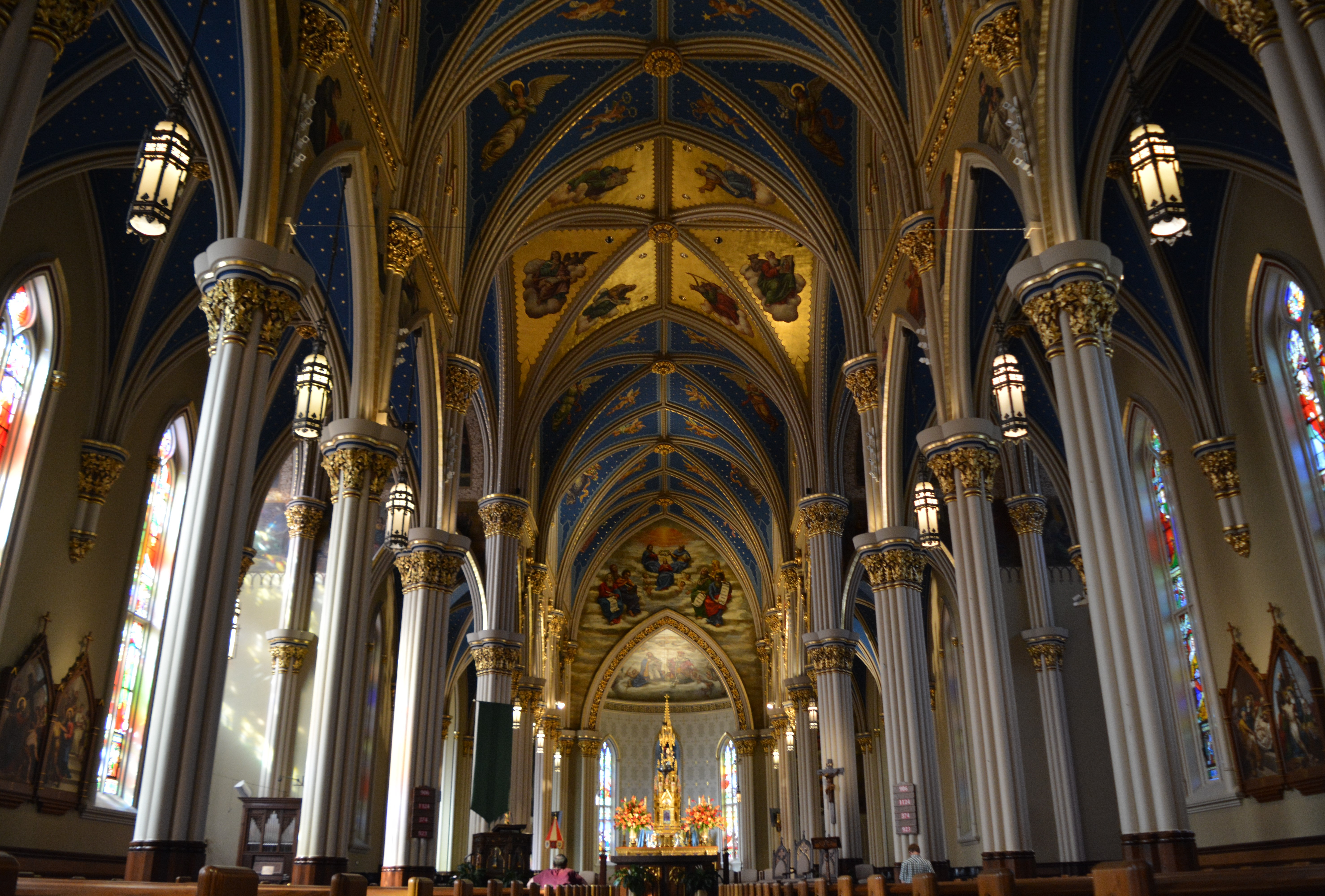 Campus of the University of Notre Dame